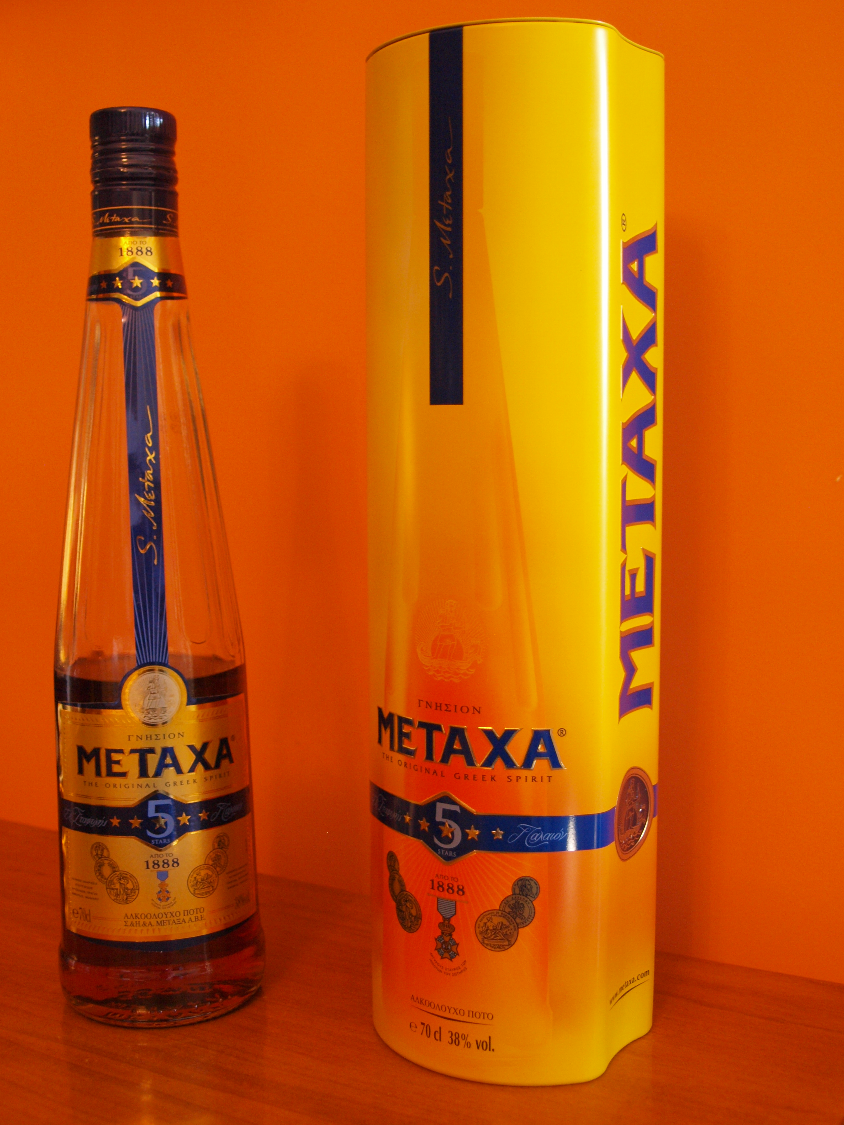 Metaxa 5 Stars and its box